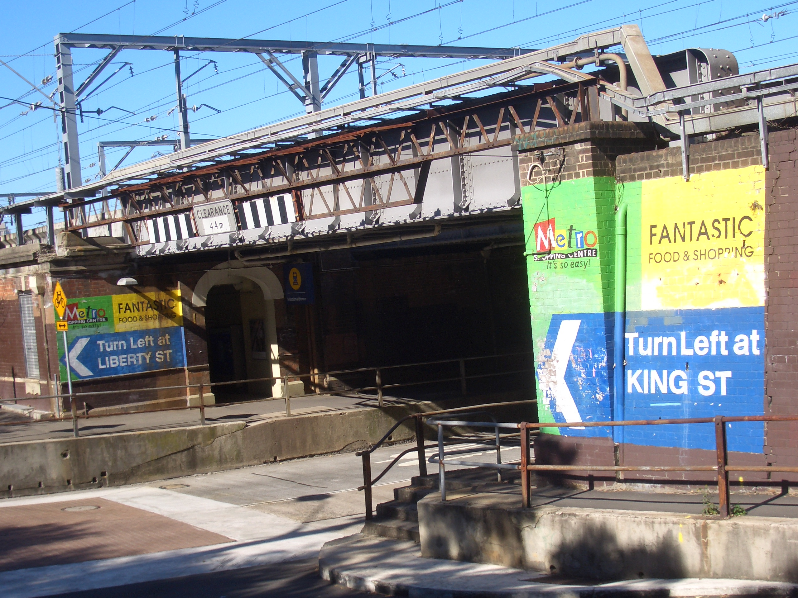 Macdonaldtown railway station platform, Sydney